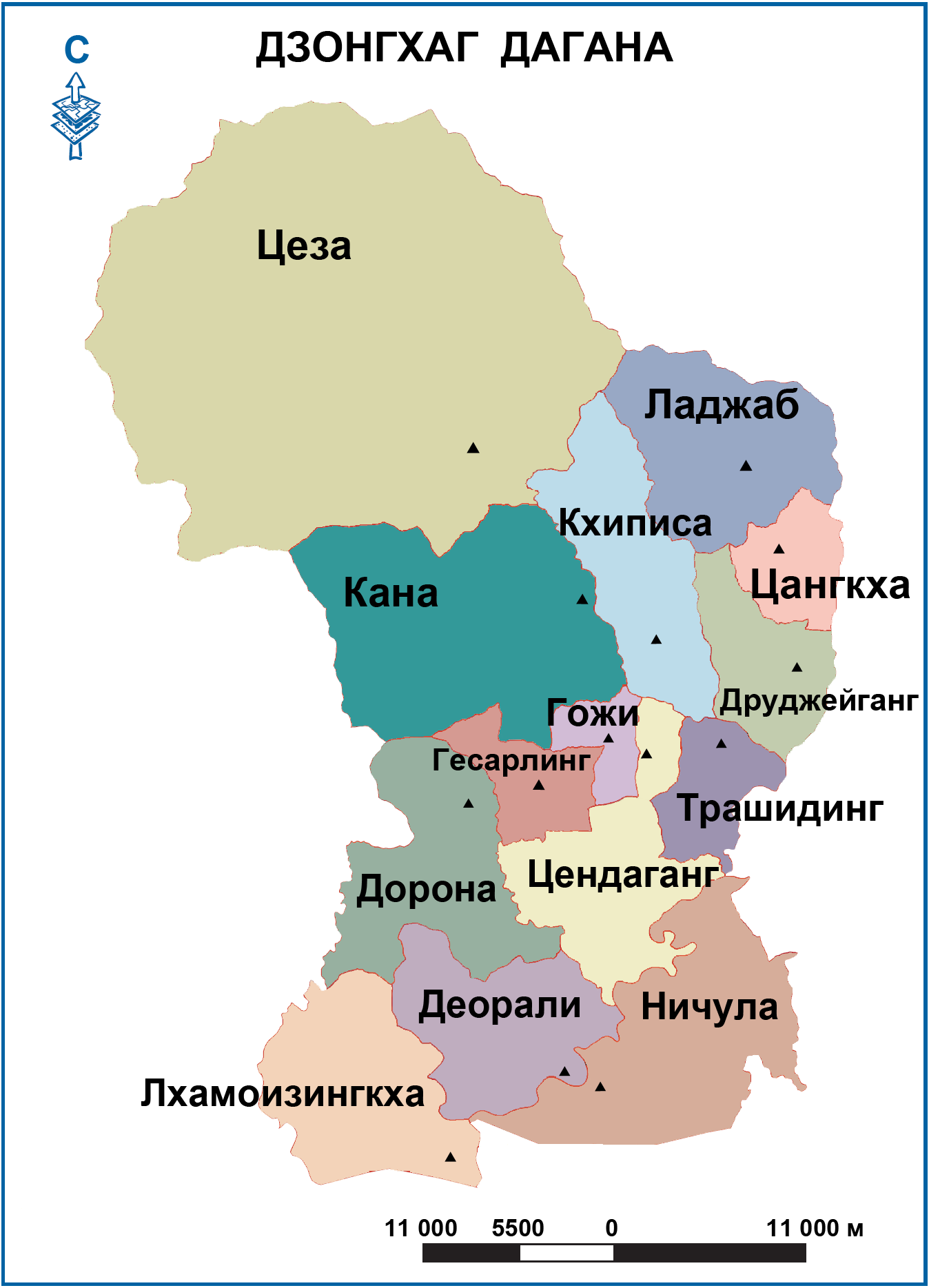 Dagana District map, Bhutan, 2011